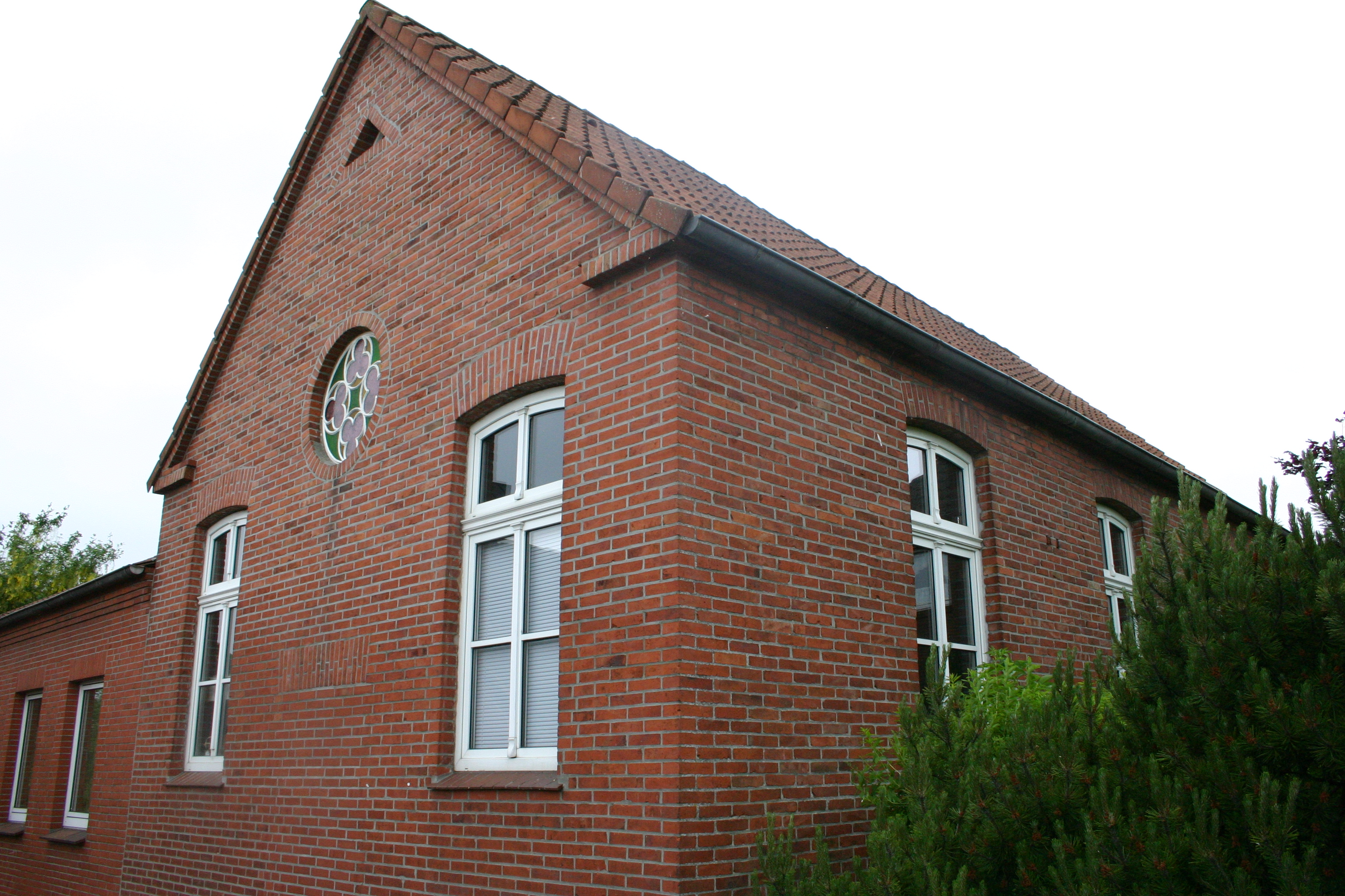 Historic church (bapt.) in Jennelt, district of Aurich, East Frisia, Germany